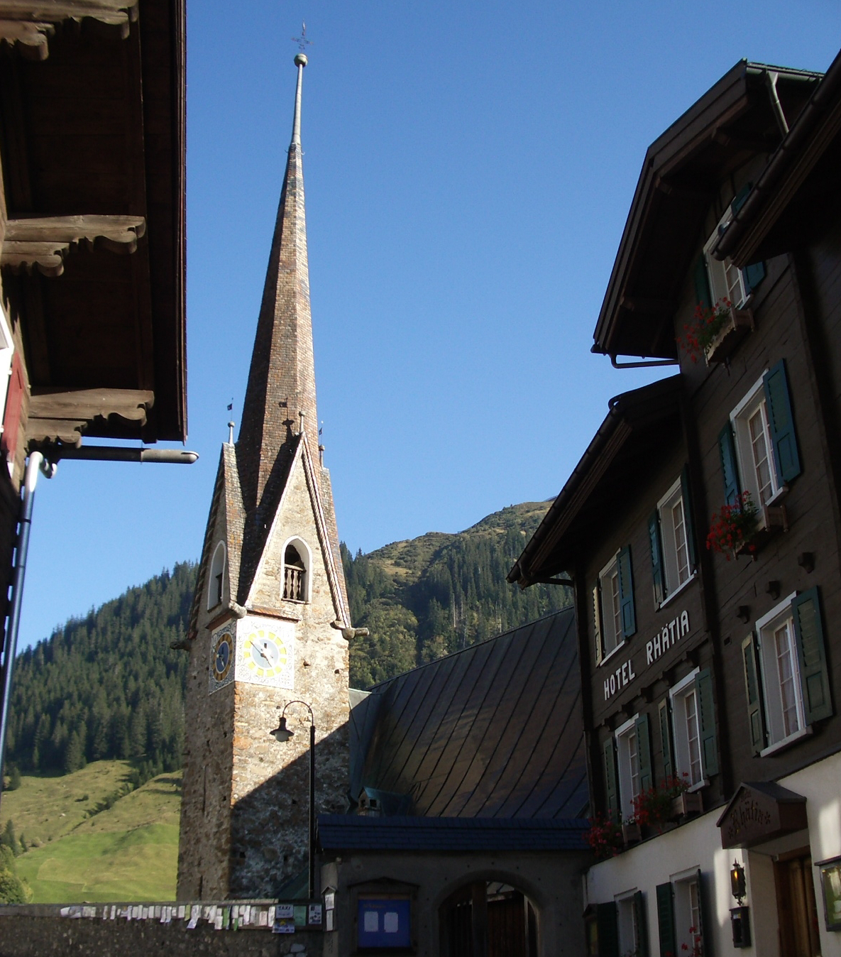 St.Antönien GR, Switzerland